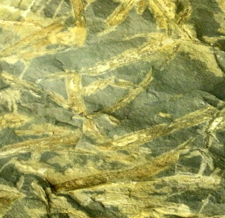 Cropped image of taxon in file name